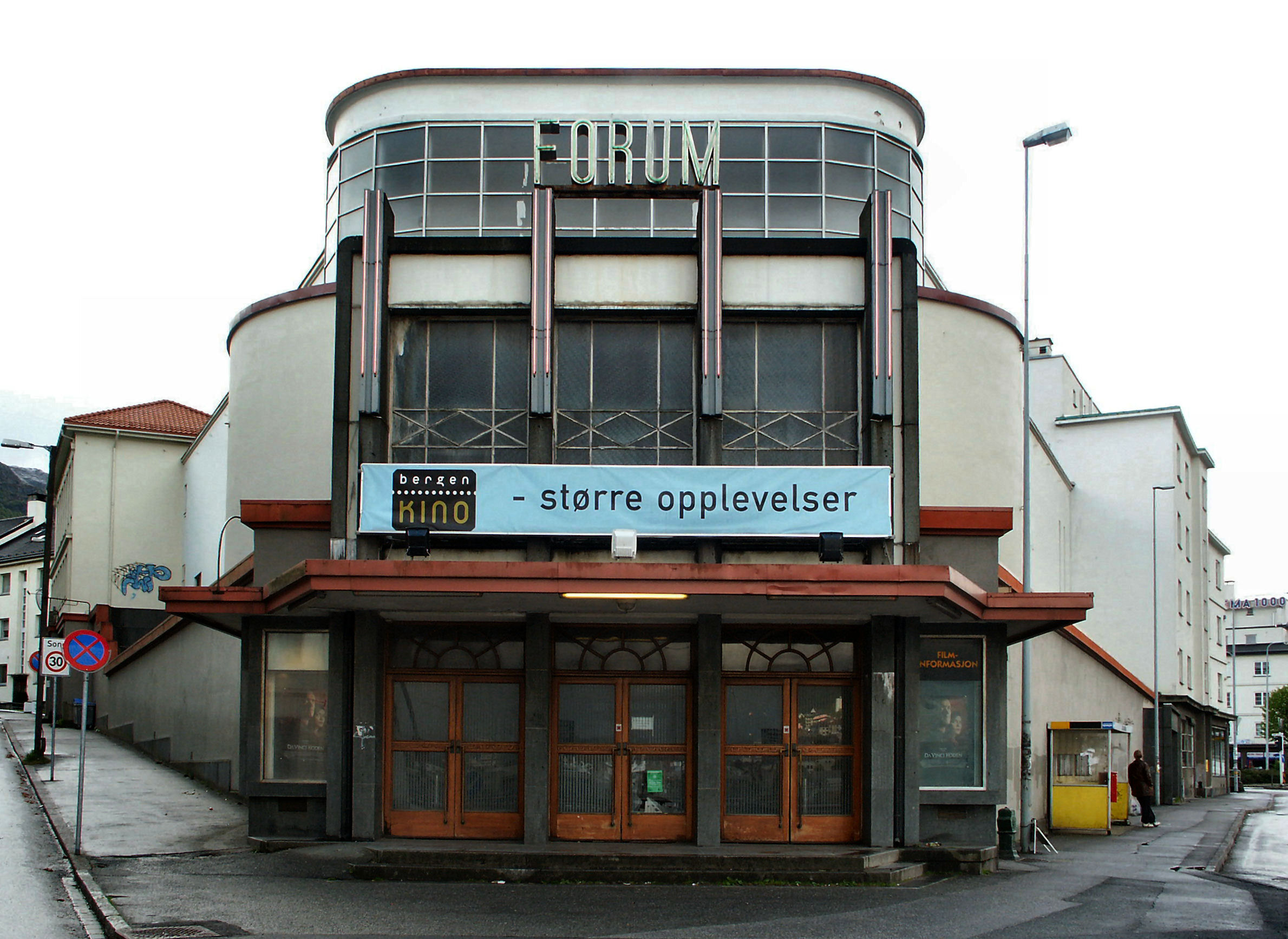 Forum, cinema in Bergen, Norway designed 1936 by Arch. Ole Landmark